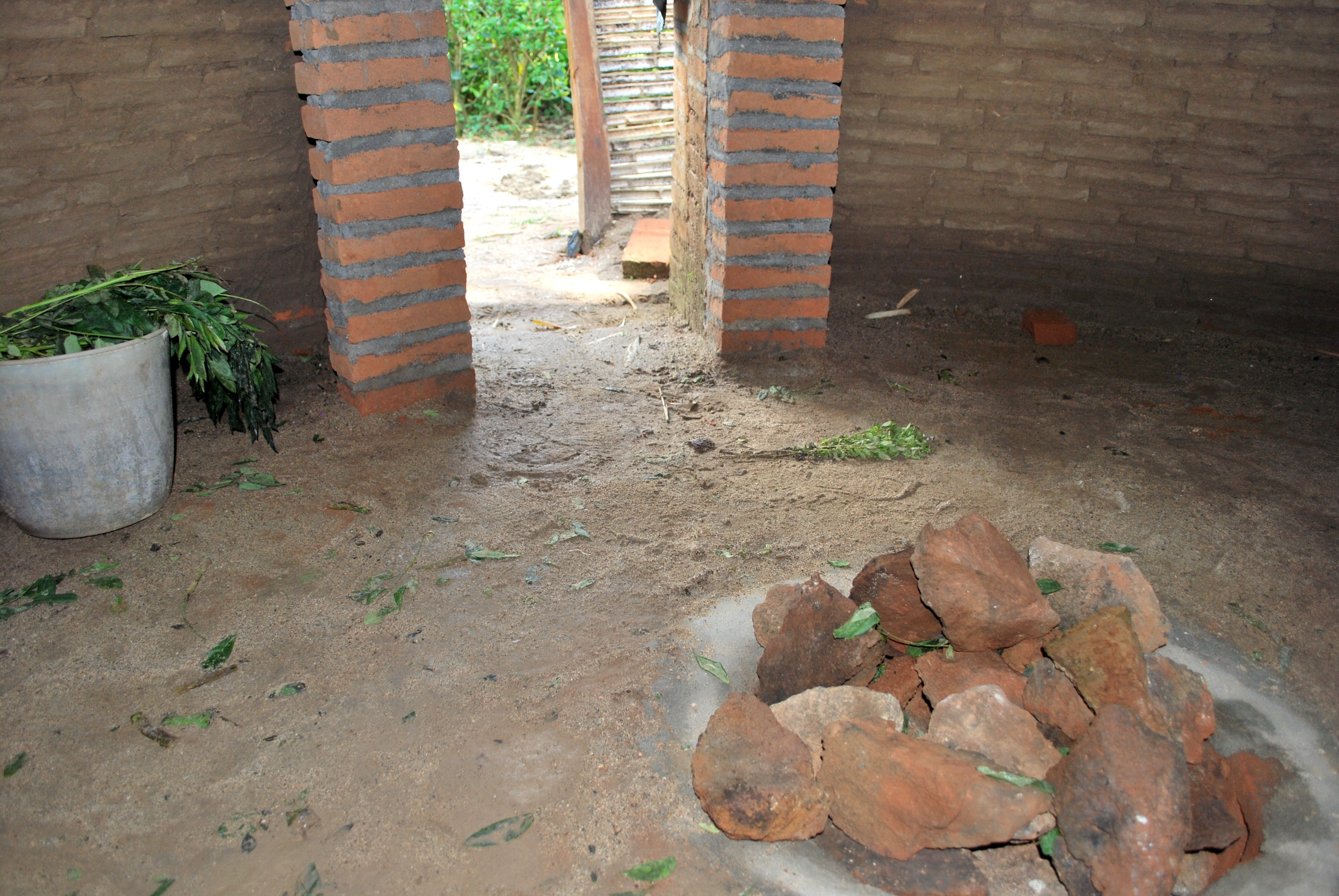 Inside the clay temazcal at the La Chonita Hacienda in Tabasco, Mexico